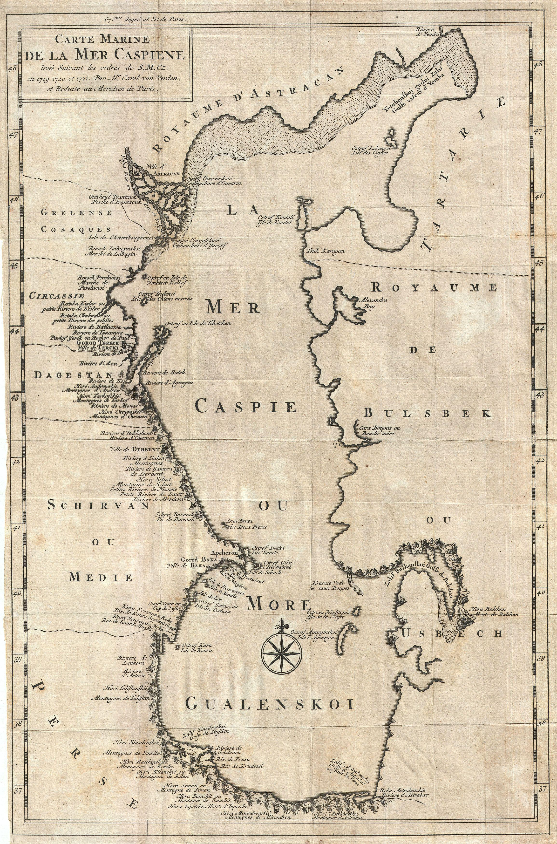 An uncommon variant on Carl Van Verden’s important 1719 – 1721 mapping of the Caspian Sea. Around 1718 the Russian Tzar, Peter the Great, sponsored a number of cartographic expeditions to the farthest reaches of his vast empire. Most of these were headed up by Dutch navigators, the most experienced and mercenary of the era. Carl Van Verden, a Dutch seaman, was commissioned as a Russian naval officer and assigned the task of mapping the Caspian Sea. Though well known since antiquity the world’s largest lake was largely ignored by surveyors until Van Verden’s work in the early 18th century. Van Verden’s work had significant political ramifications. Peter the Great, Russia’s most expansionist Tzar, was determined to make the Caspian a “Russian Lake” and invaded the region in 1722 seizing Derbent and Baku. Copies of Van Verden’s work eventually made their way to Paris via Nicholas de L’Isle, brother to the more famous cartographer G. de L’Isle. Geographers in Paris quick recognized the importance of the work and the era most significant cartographers and map publishers, including Homann, De L’Isle, Moll, and Covens and Mortier, were quick to copy and publish their own variants of the Van Verden chart. This example is of the more obscure such charts. Published in Paris around 1730, this map offers a number of important elements. All text is in both French and transliterated Russian, so “Bulsebek” becomes “Usbech” and “La Mer Caspie” becomes “More Gualenskoi”, etc. Many of the mountains along the lake’s western and southern shores are noted and curiously rendered with an unusual lake-centric orientation. Also noted are the Caspian’s various reefs, shoals, sandbars, and other undersea dangers.